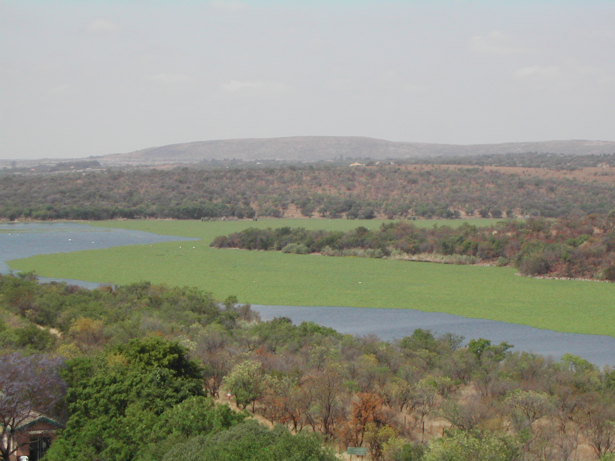 Water hyacinth (Eichhornia crassipes) infestation on the eutrophic Roodeplaat Dam NE of Pretoria, South Africa